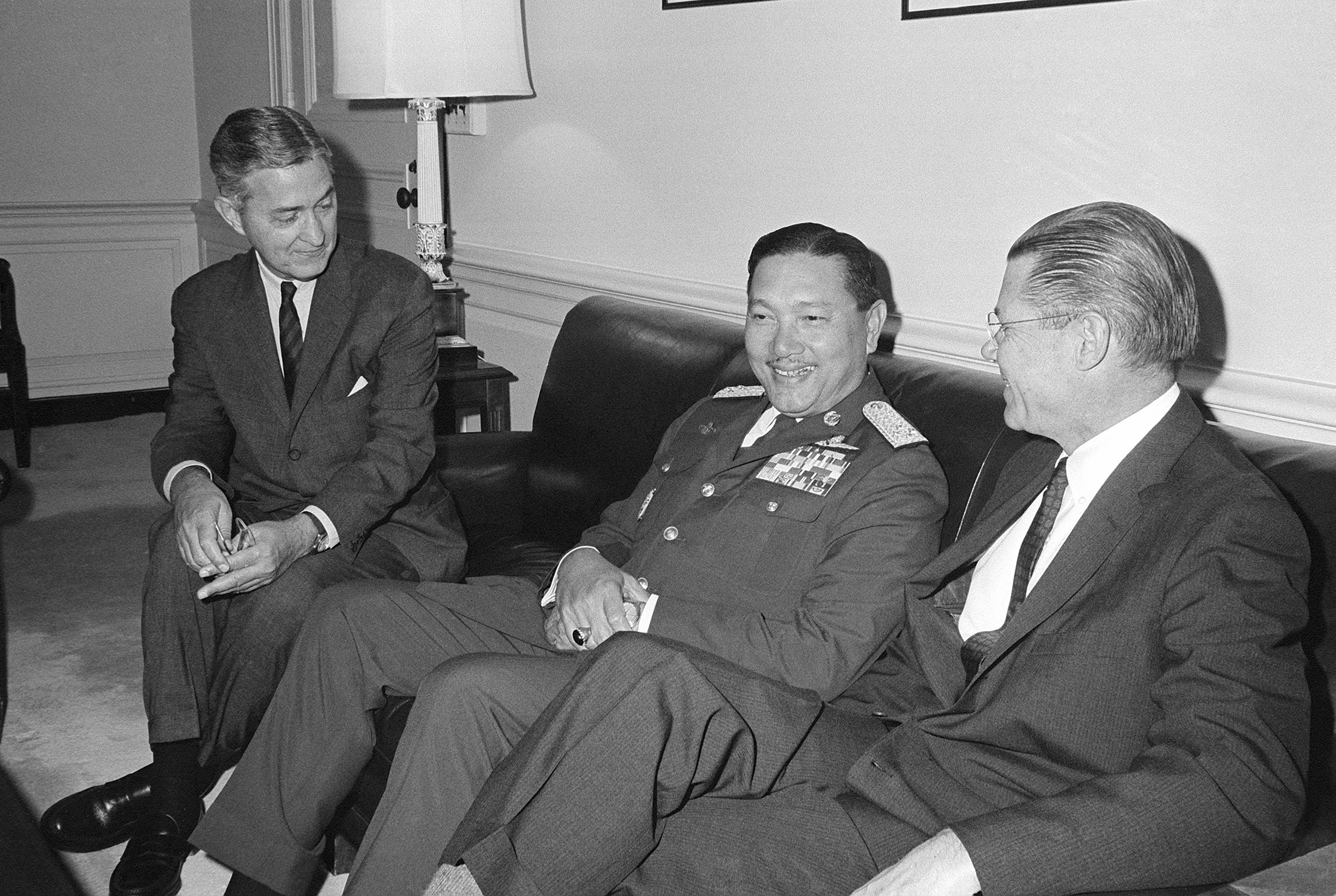 Dawee Chullasapya, Air Chief Marshal and Deputy Minister of Defense, Thailand (center), meets with Secretary of Defense Robert S. McNamara at the Pentagon.